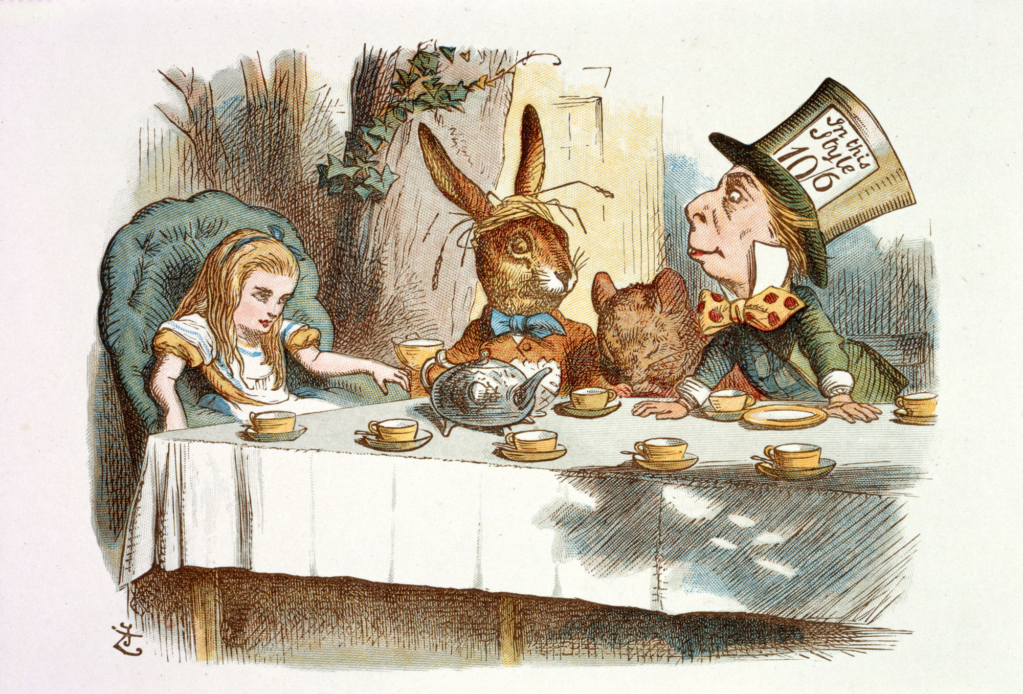 Illustration from The Nursery "Alice", containing twenty coloured enlargements from Tenniel's illustrations to "Alice's Adventures in Wonderland," with text adapted to nursery readers by Lewis Carroll. (London: Macmillan and Co. 1890) (Taken from British Library item Cup.410.g.74)